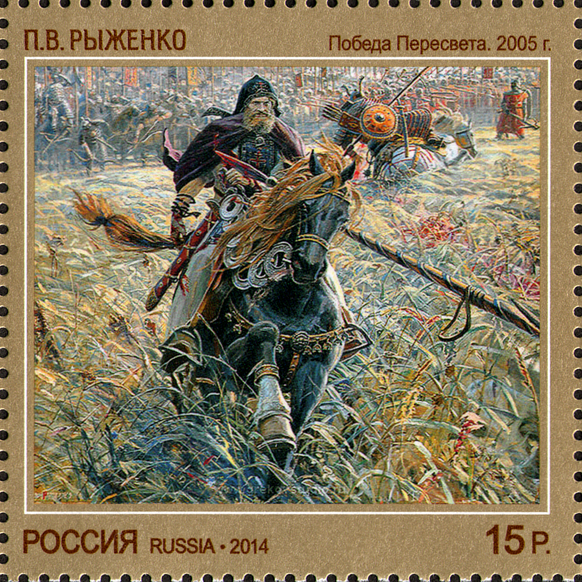 The contemporary art of Russia (the ongoing series, issue IV). Works by artists of the Grekov Studio of Military Art. The Victory of Peresvet by Pavel Ryzhenko (1970—2014). 2005. Oil on canvas. 170×210 cm. The stamp of Russia, 15.00 Rubles, 12 December 2014, PTC Marka Catalogue No 1905. Coated paper, varnish coating, bronze paste. Offset printing. Perforation: comb 11½×11½. Size of the stamp: 50×50 mm. Print run: 228,000.